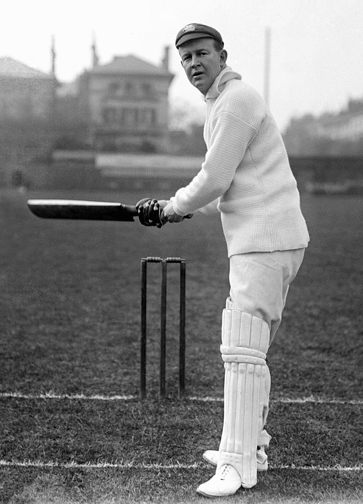 P F Warner batting stance, photographer by George Beldam